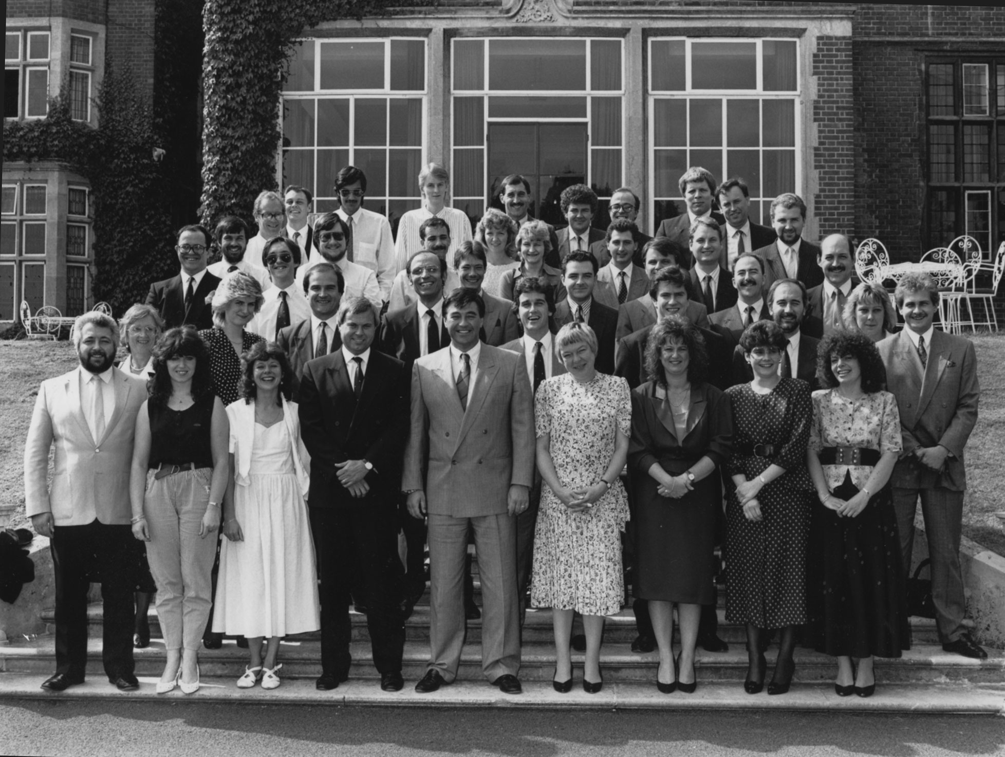 The entire staff of Commodore UK at a Christmas function. Either 1989 or 1990